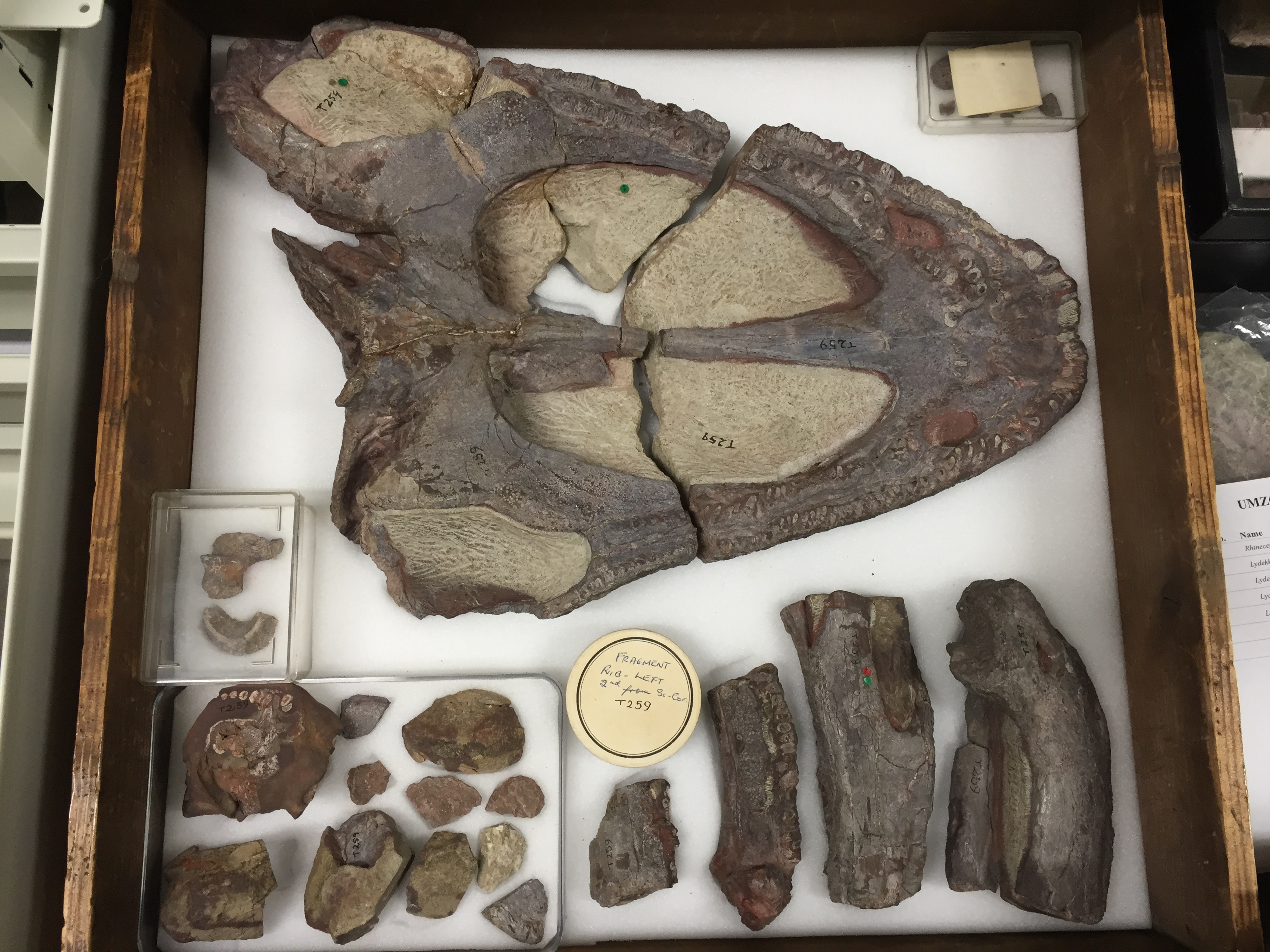 Picture of only known Rhineceps fossils (R. nyasaensis) taken by Christian Sidor. Permission to upload picture was given.